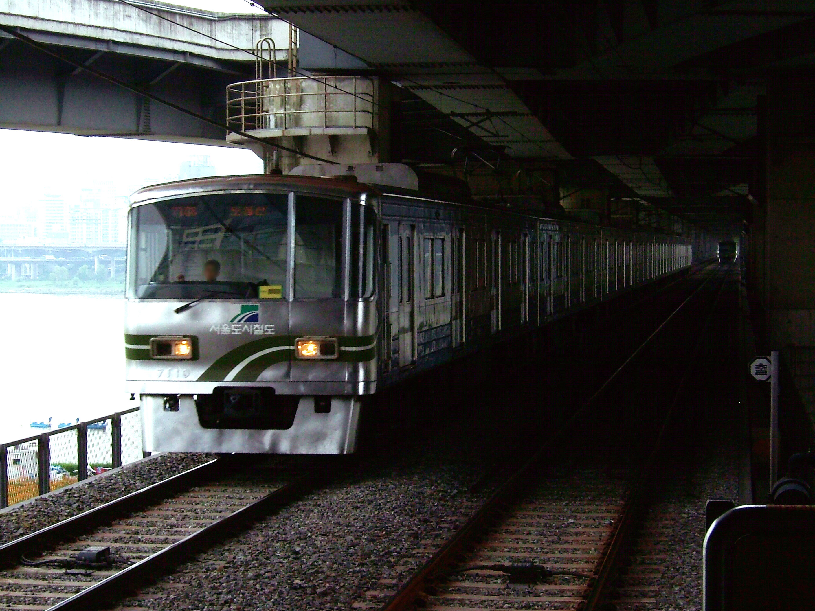 Train for Seoul Subway Line 7